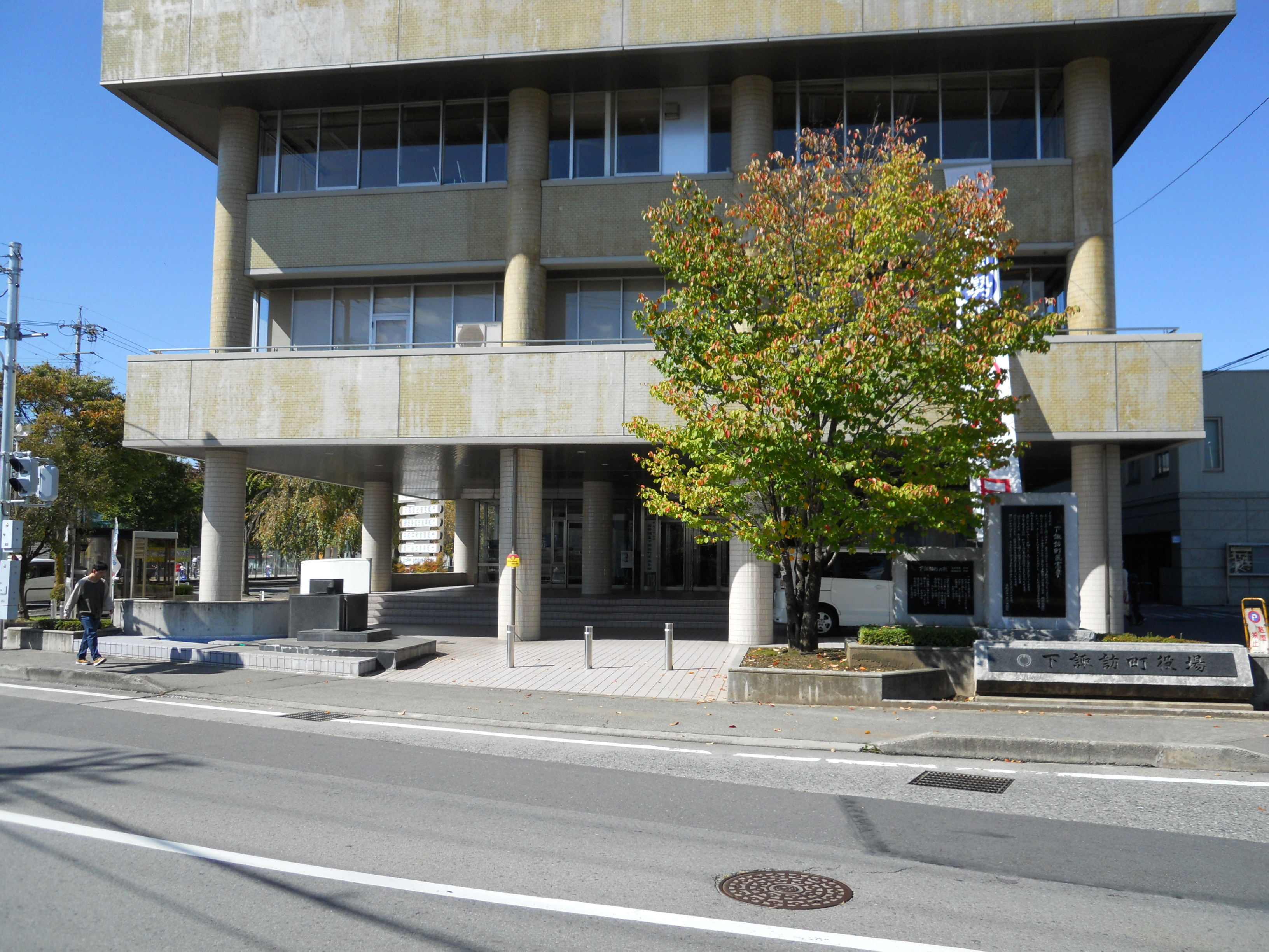 Town hall of Shimosuwa, Nagano Prefecture, Japan